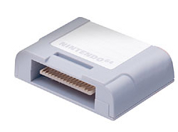 Picture of the Controller Pak